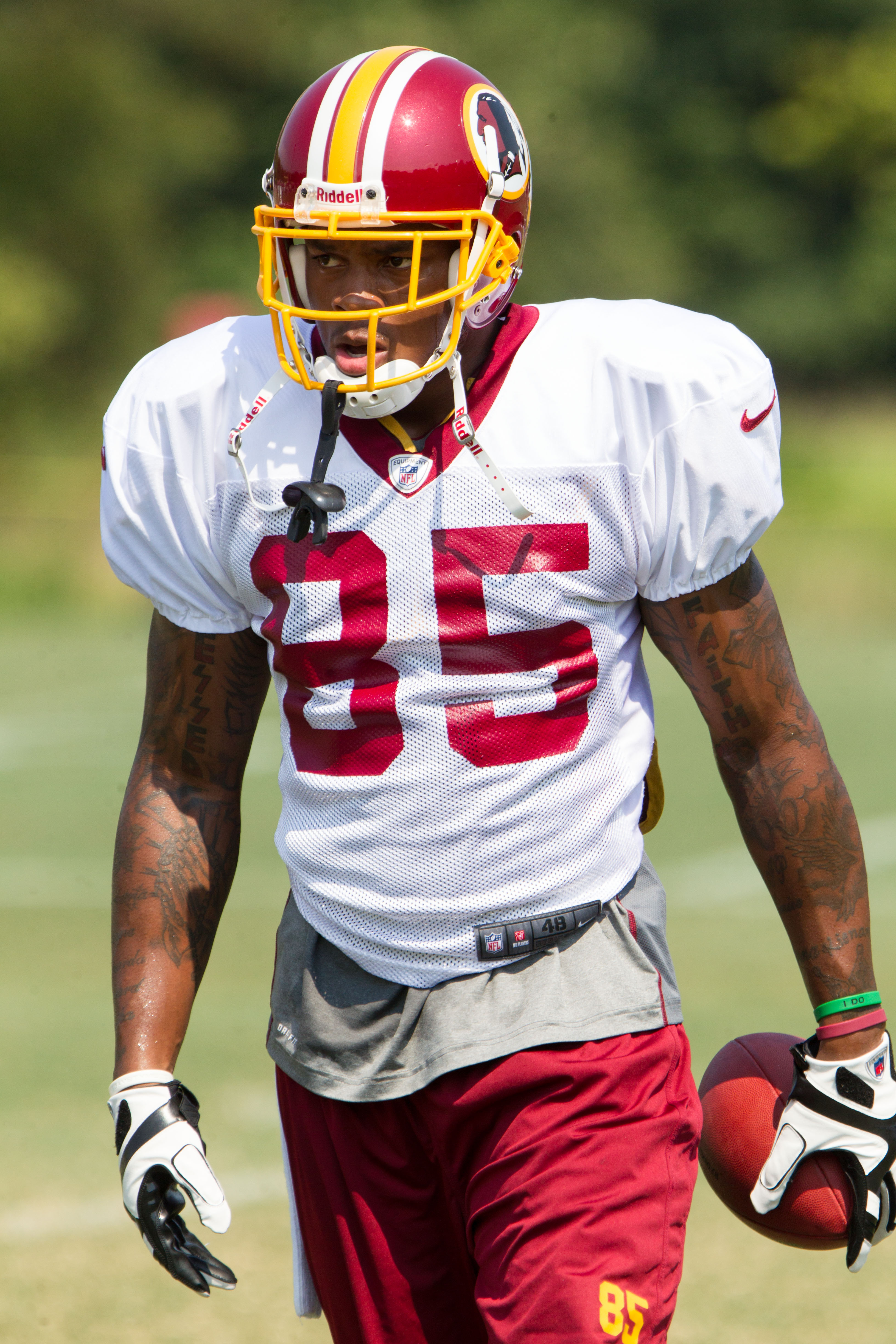 Leonard Hankerson at Washington Redskins Training Camp August 1, 2012